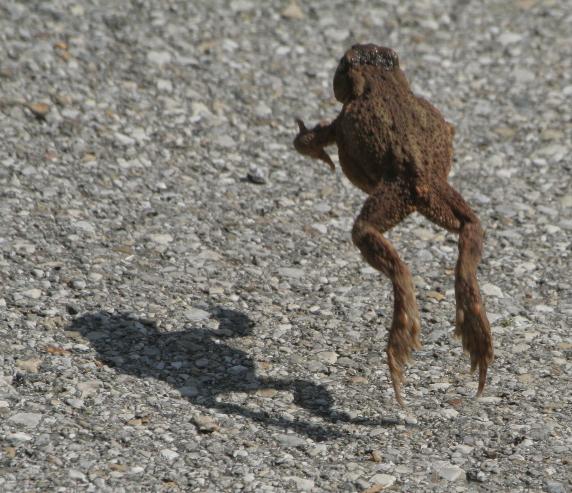 Toad jumping near Fürstenfeldbruck in Bavaria